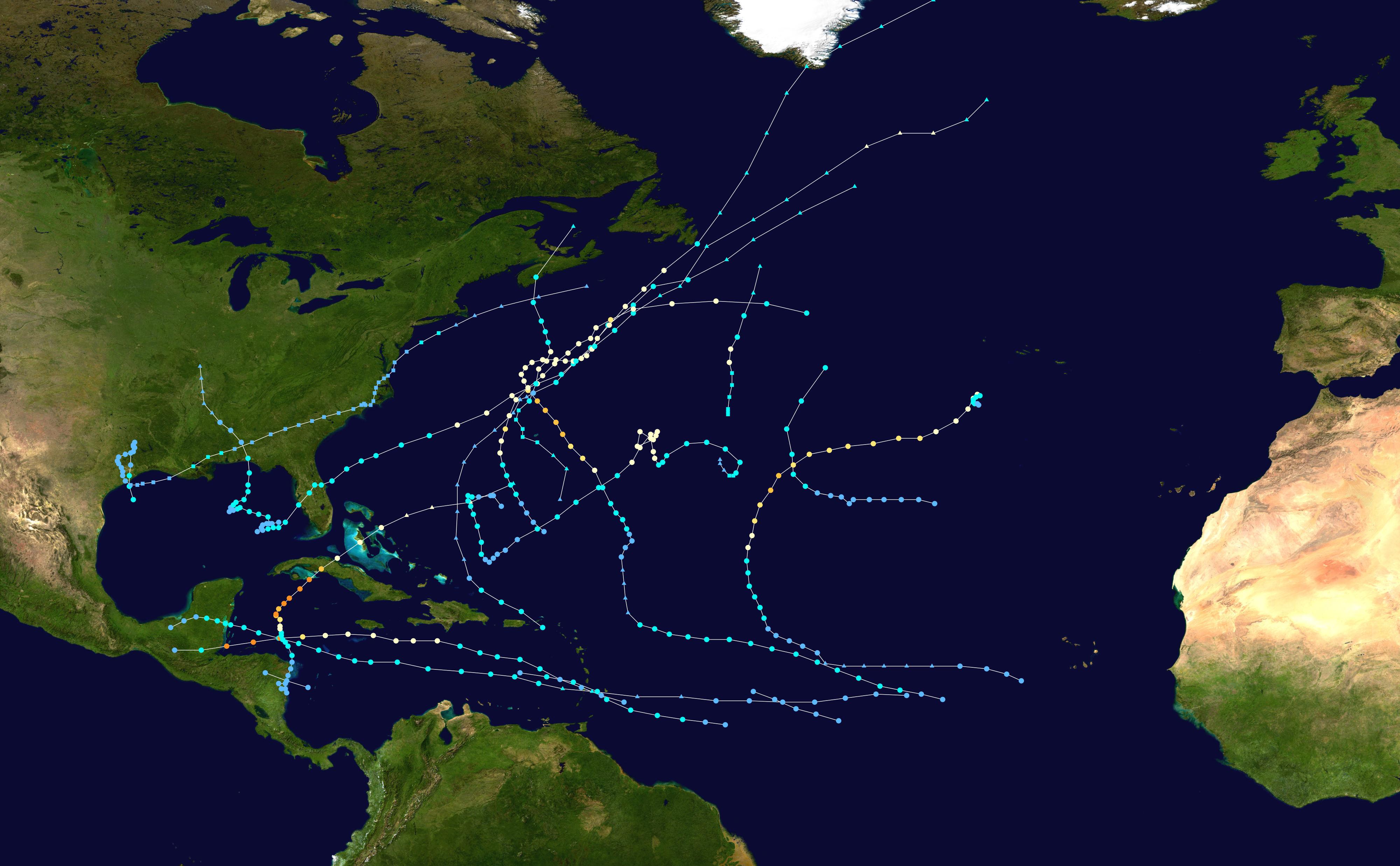 This map shows the tracks of all tropical cyclones in the 2001 Atlantic hurricane season. The points show the location of each storm at 6-hour intervals. The colour represents the storm's maximum sustained wind speeds as classified in the Saffir-Simpson Hurricane Scale (see below), and the shape of the data points represent the type of the storm. Saffir–Simpson scale Tropical depression≤38 mph≤62 km/h Category 3111–129 mph178–208 km/h Tropical storm39–73 mph63–118 km/h Category 4130–156 mph209–251 km/h Category 174–95 mph119–153 km/h Category 5≥157 mph≥252 km/h Category 296–110 mph154–177 km/h Unknown Storm type Tropical cyclone Subtropical cyclone Extratropical cyclone / Remnant low / Tropical disturbance / Monsoon depression